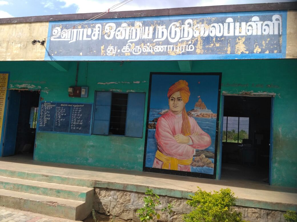 PUMS T.KRISHNAPURAM